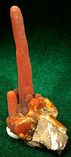 Calcite Locality: Alzada, Carter County, Montana, USA (Locality at ) Size: 7 x 5.2 x 3 cm. The Calcite (often referred to as Aragonite in this material...I was told that the analysis had been made) stalactites of Carter County are renowned for their form and color. This particular specimen is a superb example not only for the fact that is has the classic deep red- orange color and good translucence, but that the main stalactite is completely intact. This specimen was part of the old Miller calcite collection sold to Victor Yount in the mid 1990s. The piece was undoubtedly collected by Bud Ehrle in the late 1970's as all the good ones like this came from him, I am told.